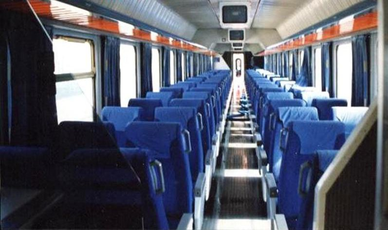 B10t-16305 (ex BB-8500) coach interior. Can Tunis, 1999-03-16.